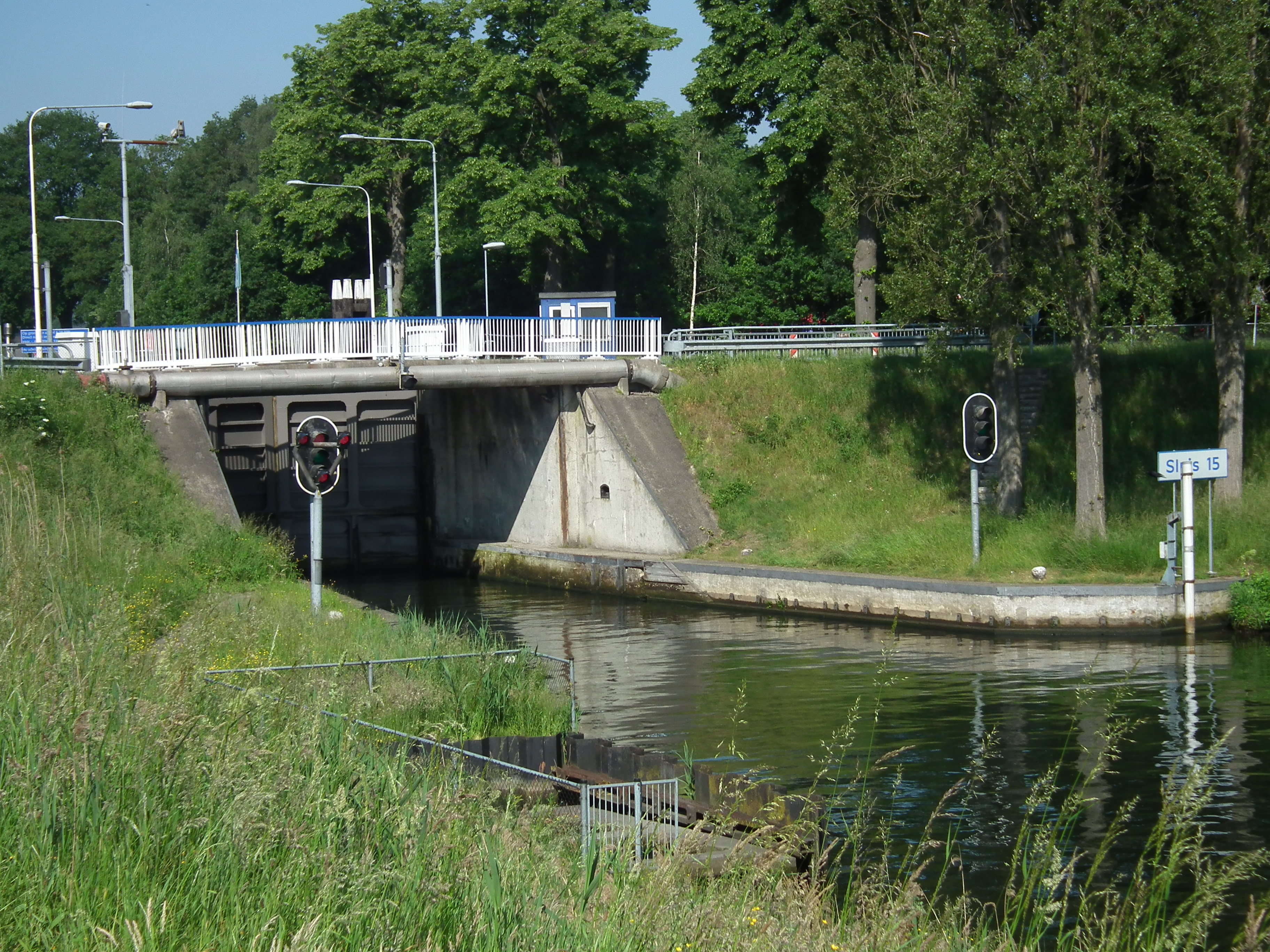 Canal lock 15 in the Zuid-Willemsvaart